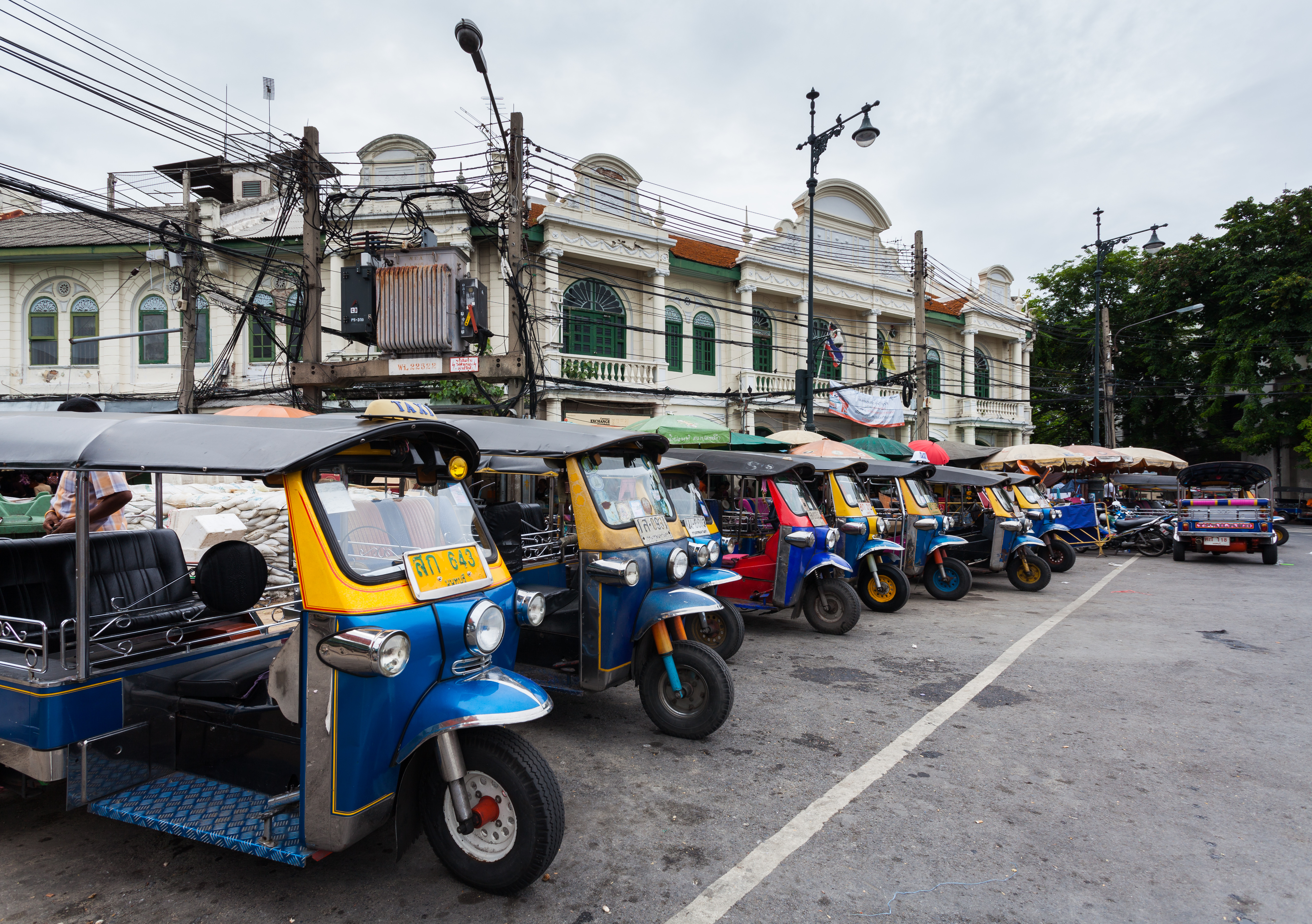 Tuk-tuks at Maha Rat St., Bangkok, Thailand